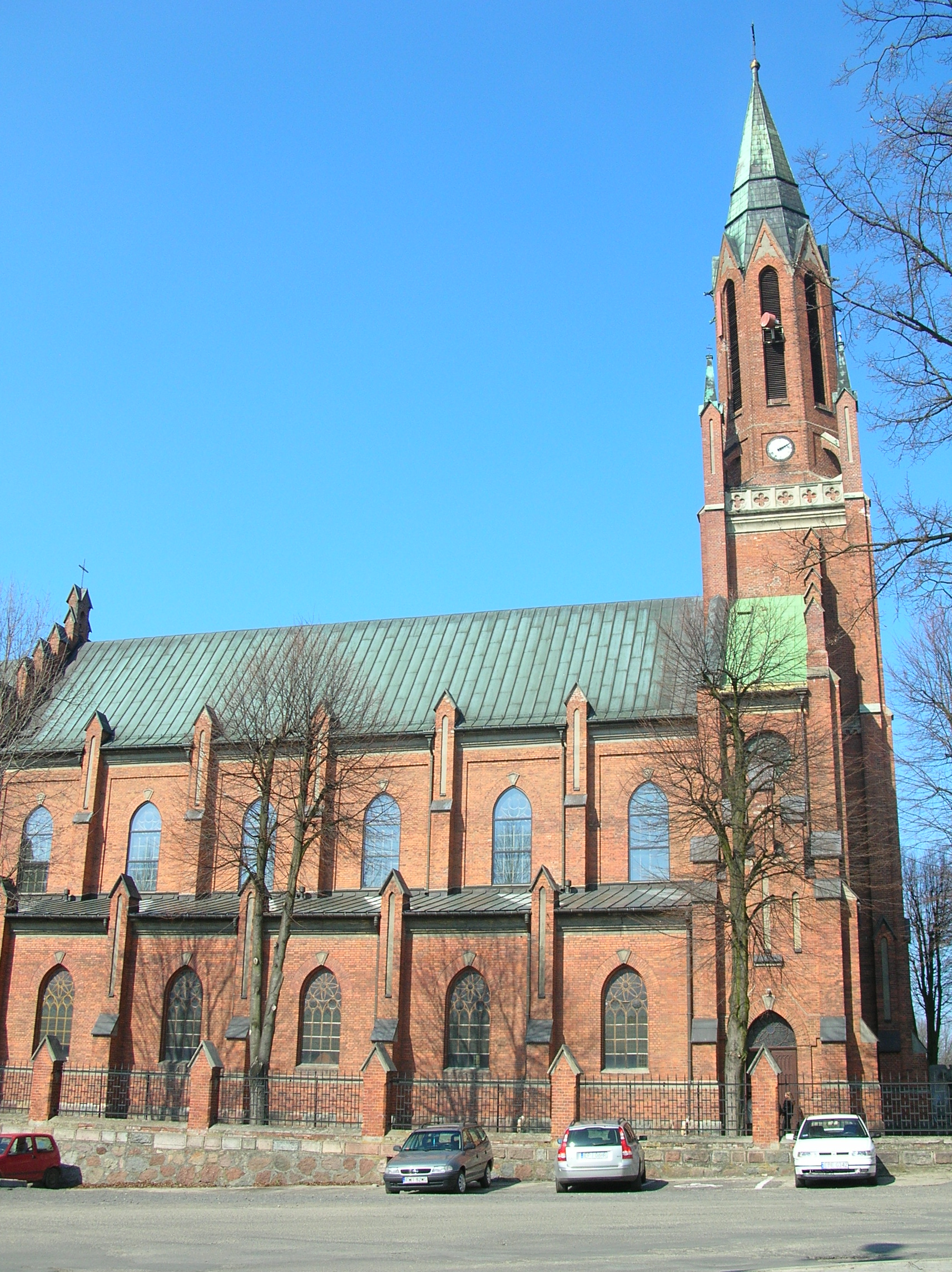 Saint Casimir church in Osjaków, Poland